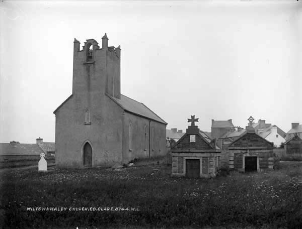 The Church of Ireland building in Milltown Malbay prior to 1917.